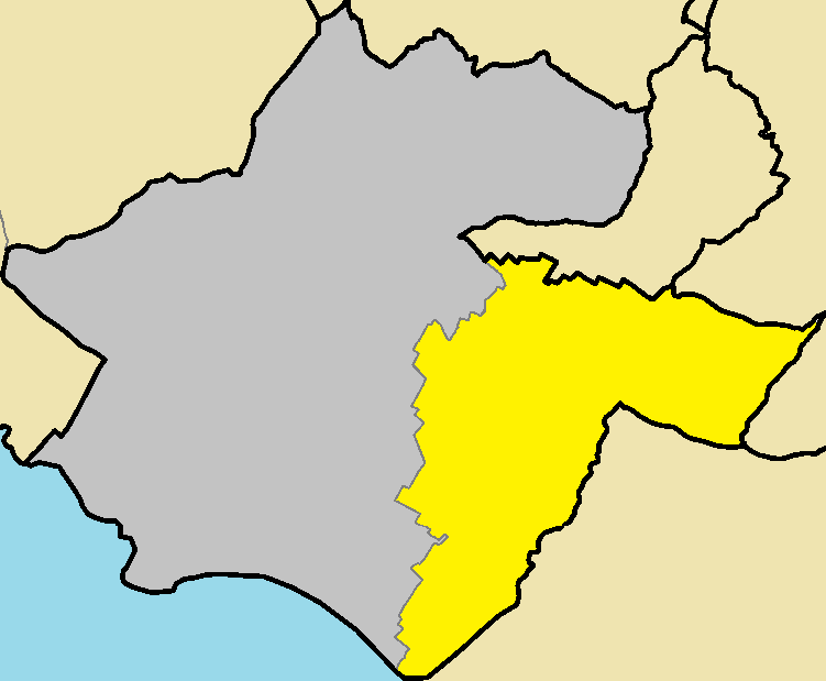 Koloni, Cyprus in Geroskipou.